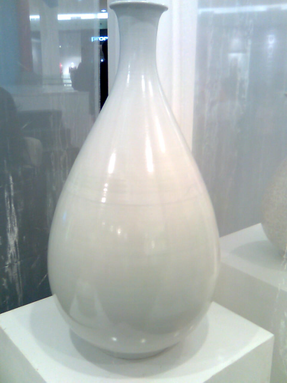 Baekja or Korean White Ceramic (백자;白磁) in an exhibition titled “The Light of Millennium of Korean Ceramics” in Jakarta, Indonesia, November 2008